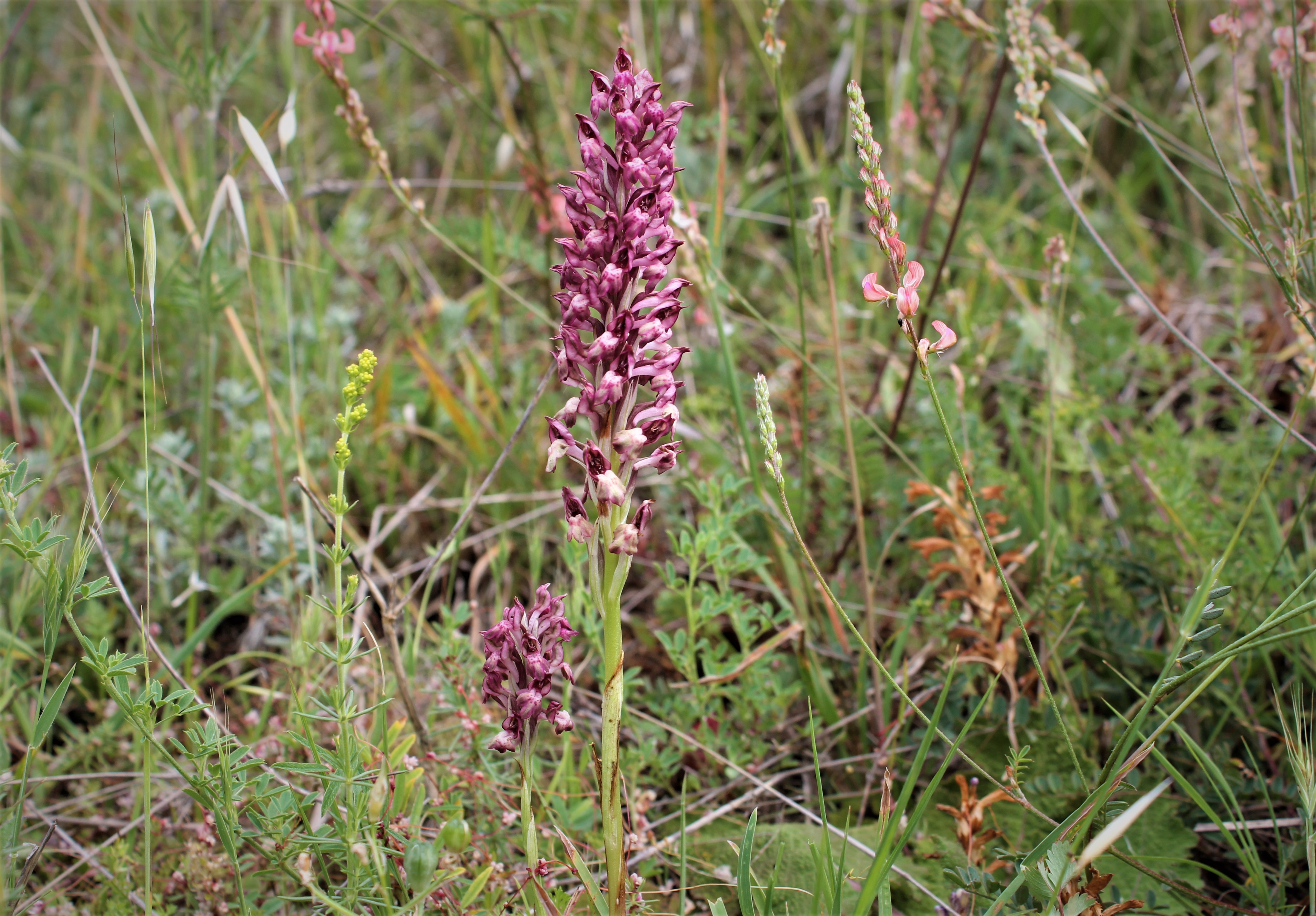 Anacamptis coriophora general